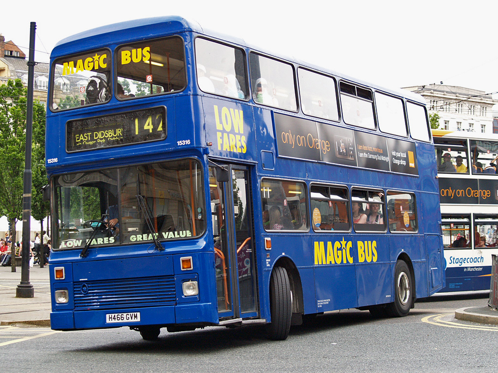 Stagecoach Manchester 15316 H466 GVM, a Scania N113DRB built 1991 with a Northern Counties H47/28F body in Piccadilly Gardens bus station, Manchester with a Manchester Piccadilly Gardens to East Didsbury (Parrs Wood) via Wilmslow Road 142 service. Friday 25th July 2008